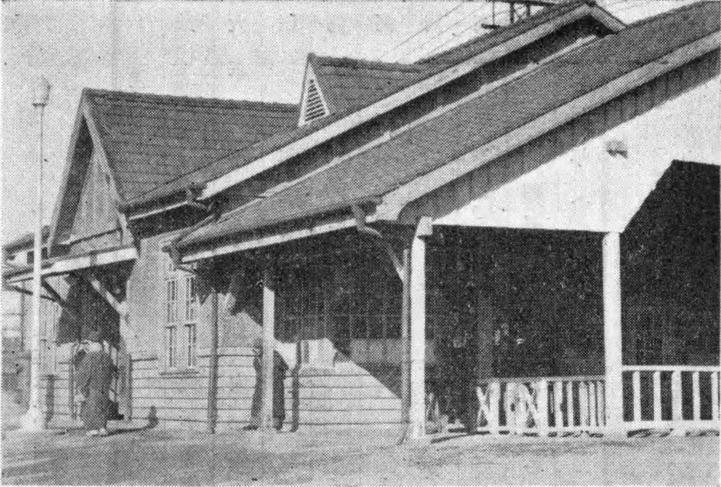 Totsuka railway station (present-day west gate) in Totsuka, Kanagawa